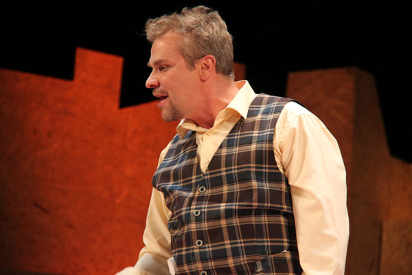 Dmitry Skirta